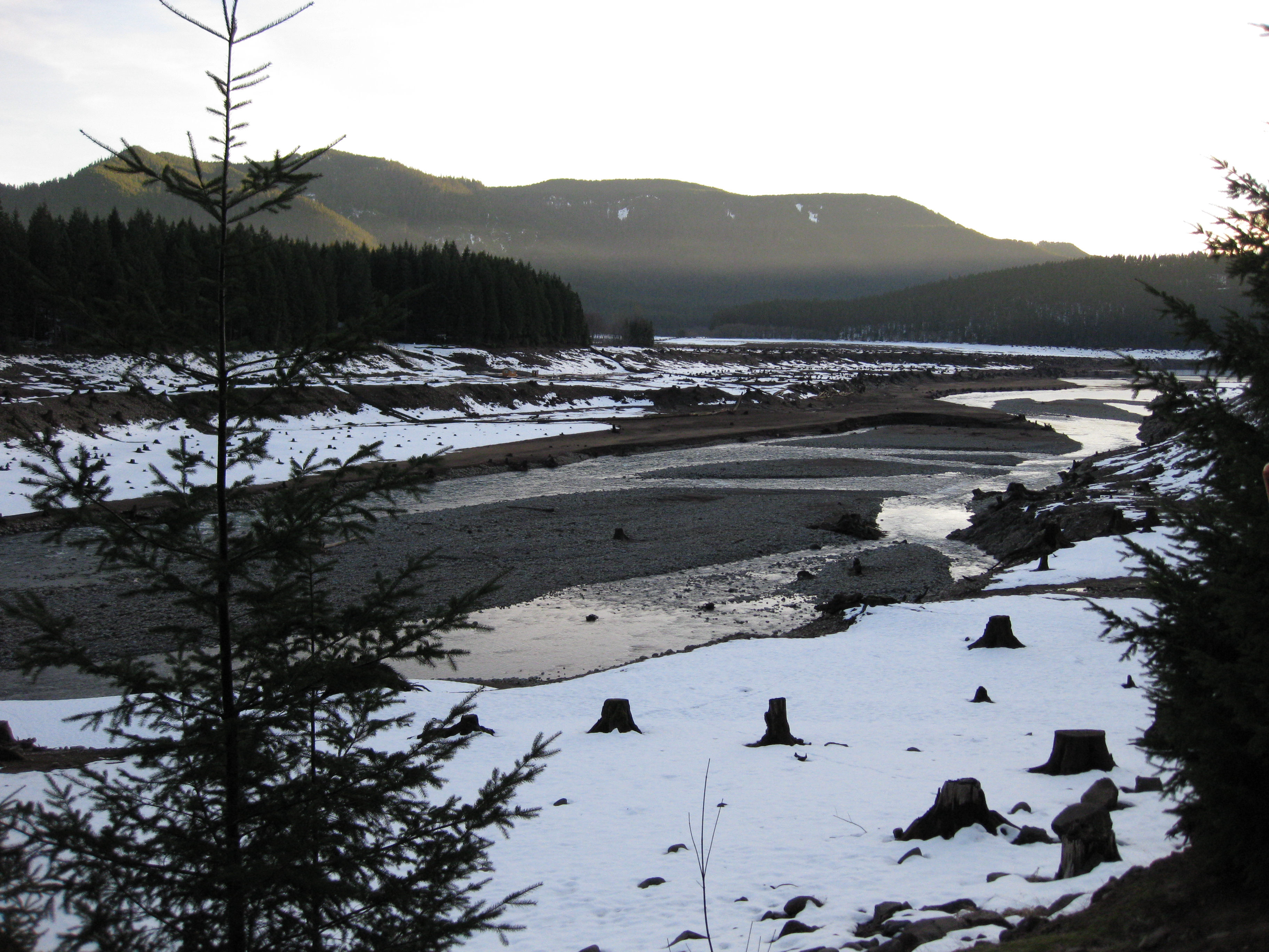 Photograph of the North Santiam River along OR 22 near Detroit, Oregon. This part of the river becomes apart of Detroit Lake in the summer.